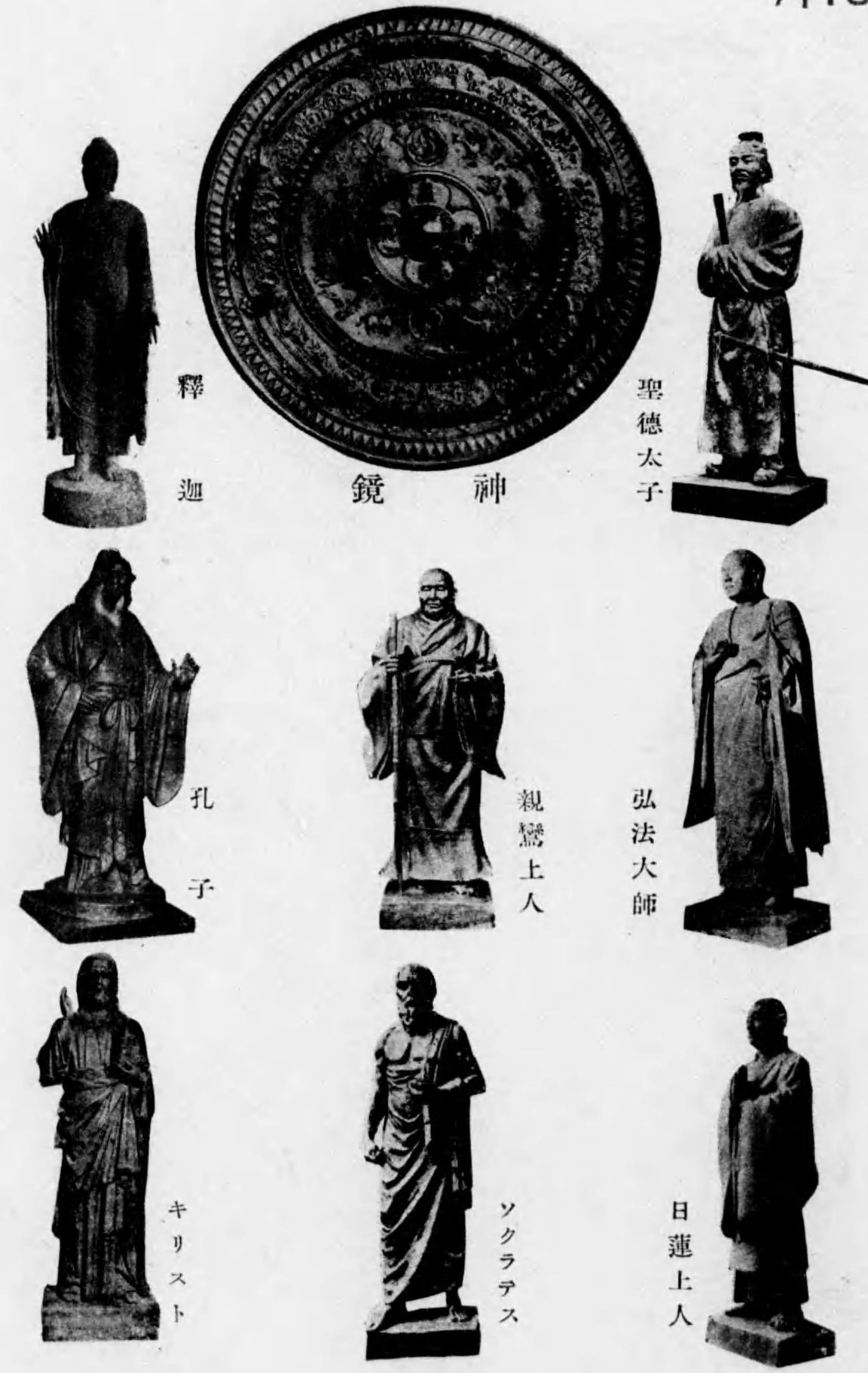 Eight statues and a mirror in Hassei-den, Yokohama.